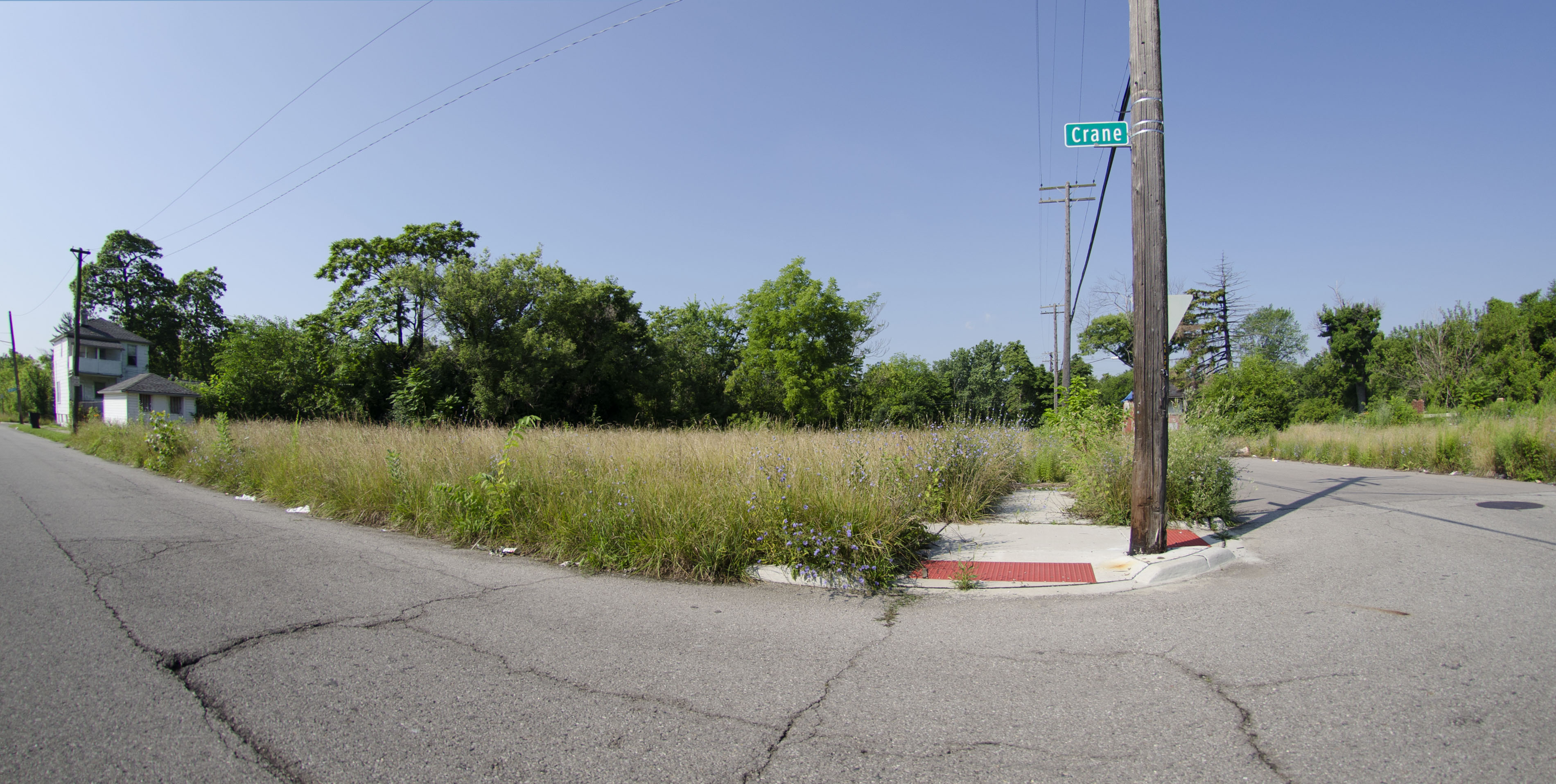 Corner of Crane and St Paul Streets in Detroit, Michigan, United States.Decades of urban decay have left many of Detroit's residential lots vacant and overgrown with vegetation. The photo has been taken about four miles east of Downtown.